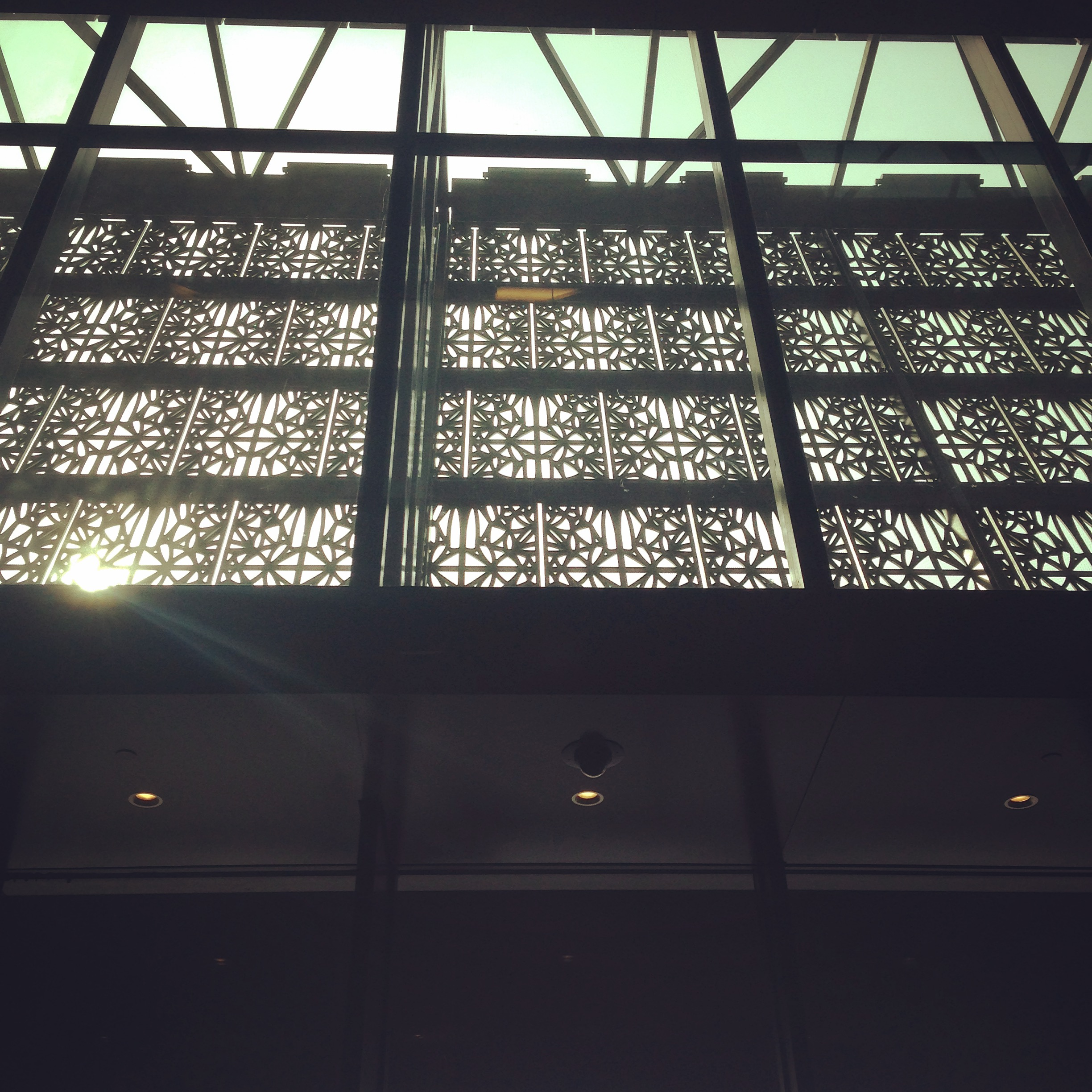 Looking up at the decorative pattern in the ironwork on the southern facade of the National Museum of African American History and Culture in Washington, DC.